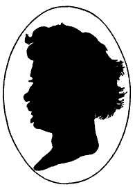 Silhouette made by Paul Konewka (1840-1870), german illustrator, self-portrait ?